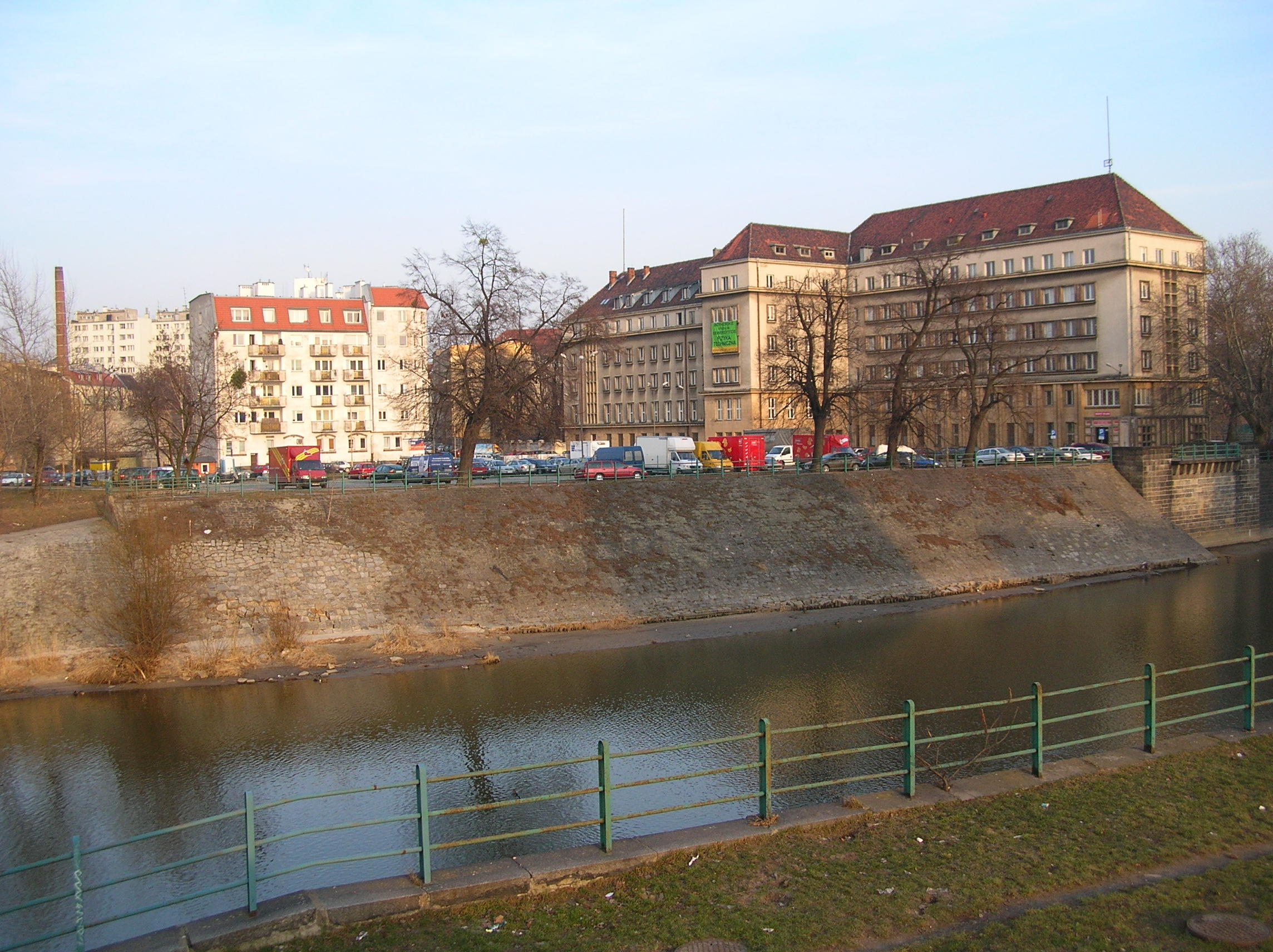 Borna Square, Wrocław